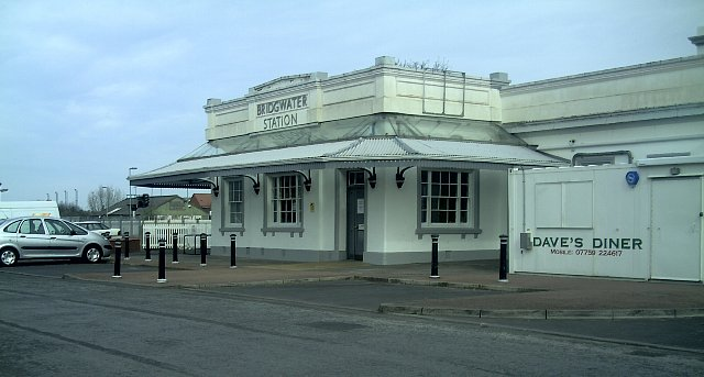 Railway Station